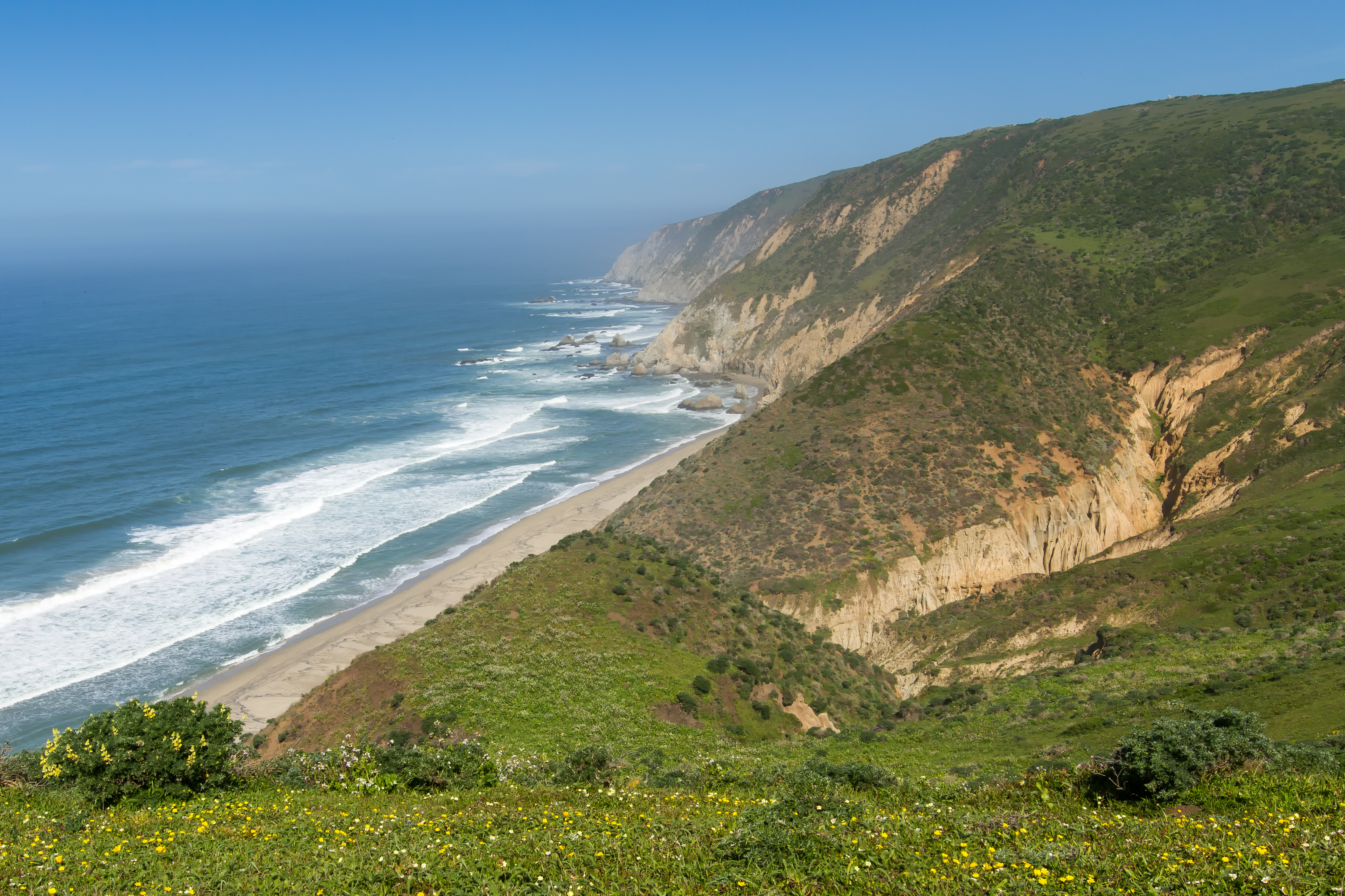 Coastline at Tomales Point, Point Reyes National Seashore, California